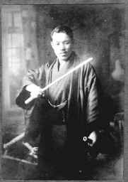 Sadahei